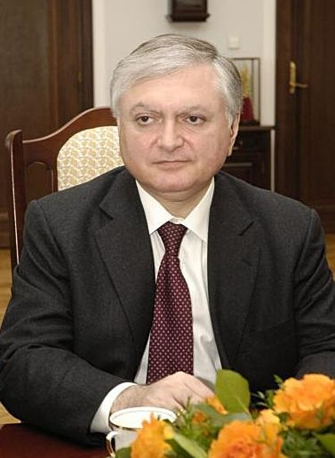 Minister of Foreign Affairs Eduard Nalbandyan in the Polish Senate